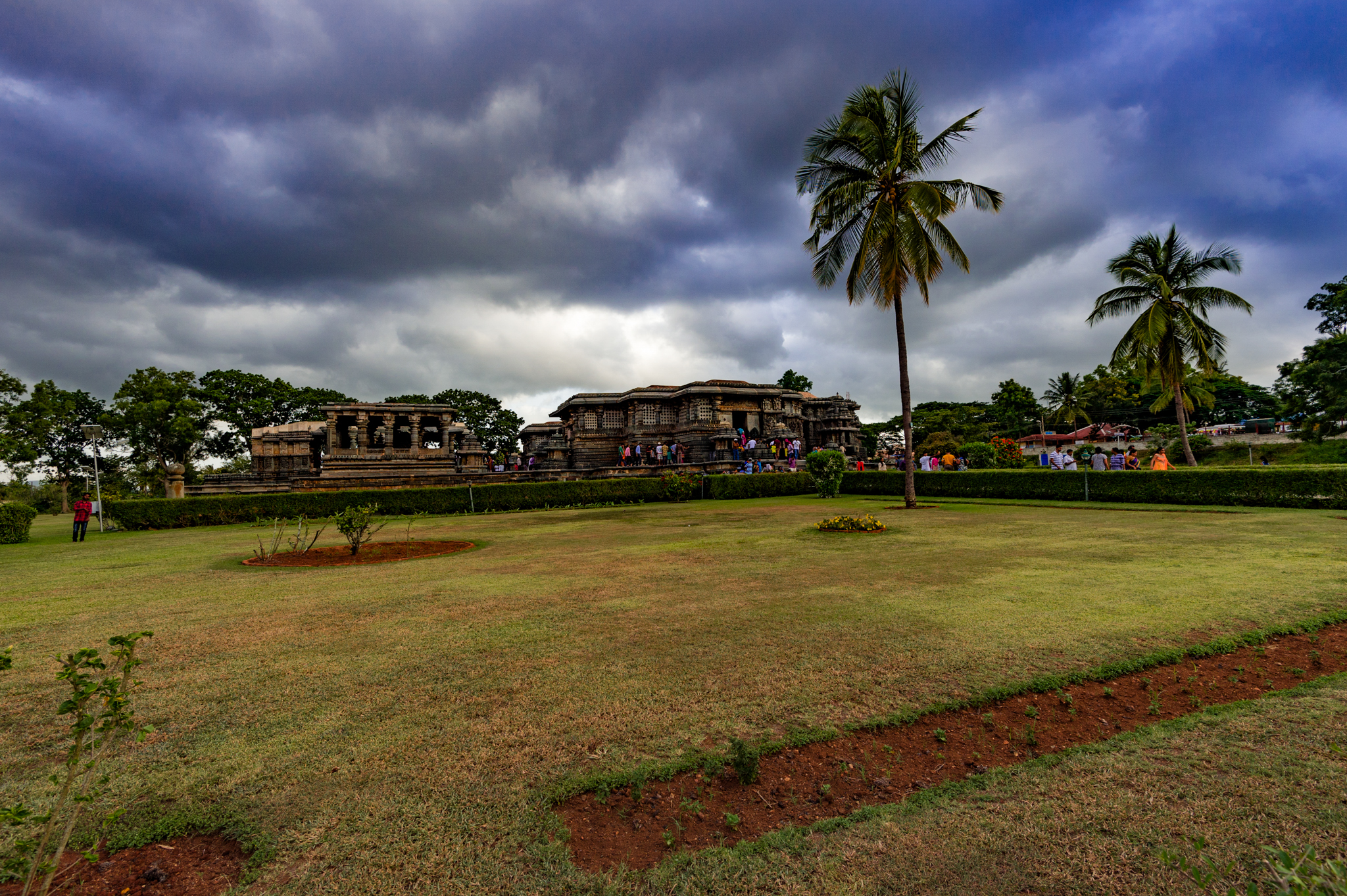 Hoysala Architectures